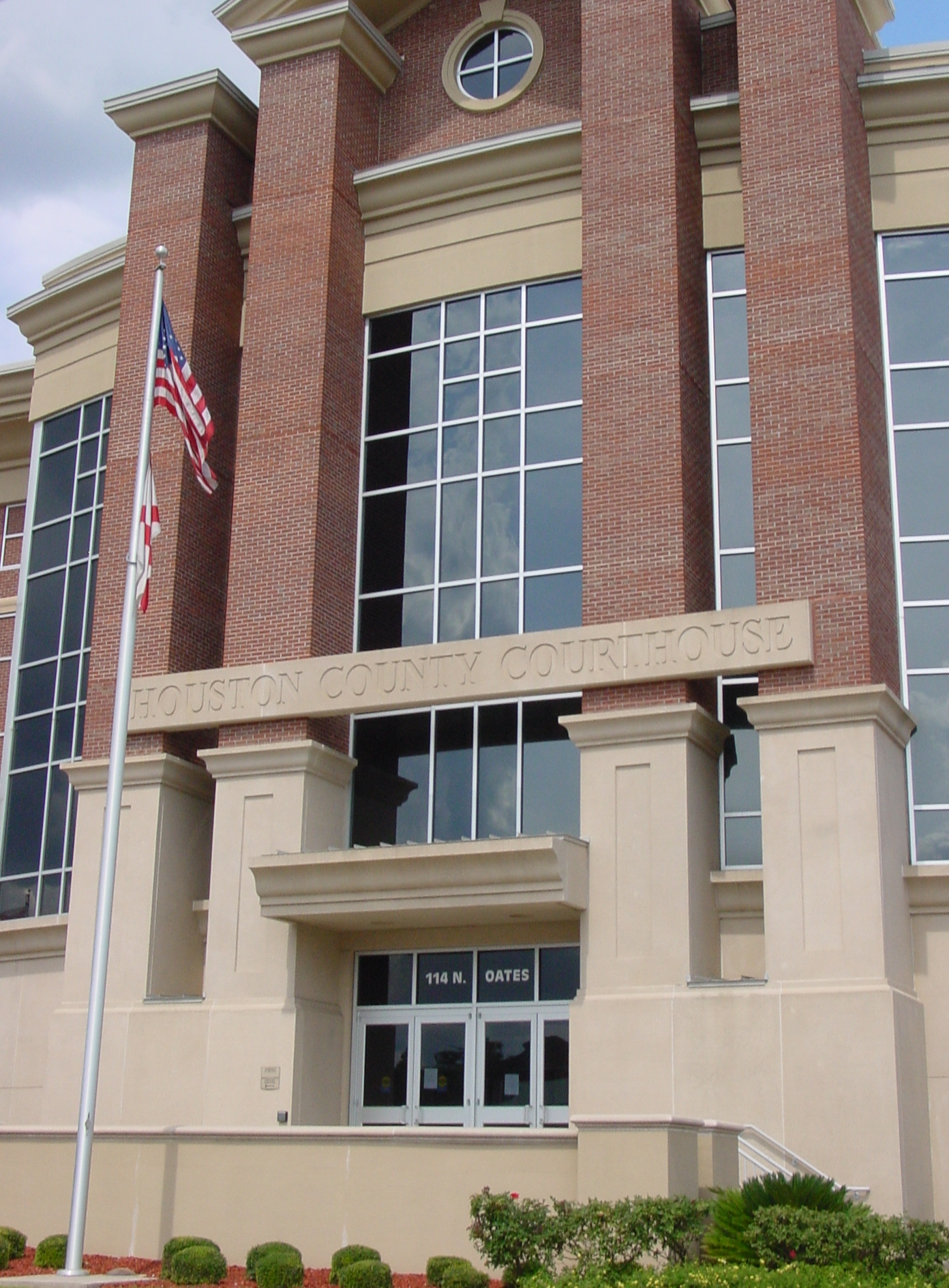 This photograph is of the Houston County Courthouse in Dothan, Alabama.